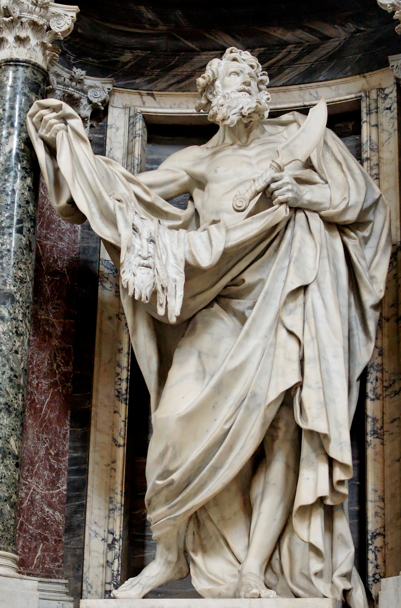 St. Bartholomew by Pierre Le Gros the Younger. Nave of the Basilica of St. John Lateran (Rome).